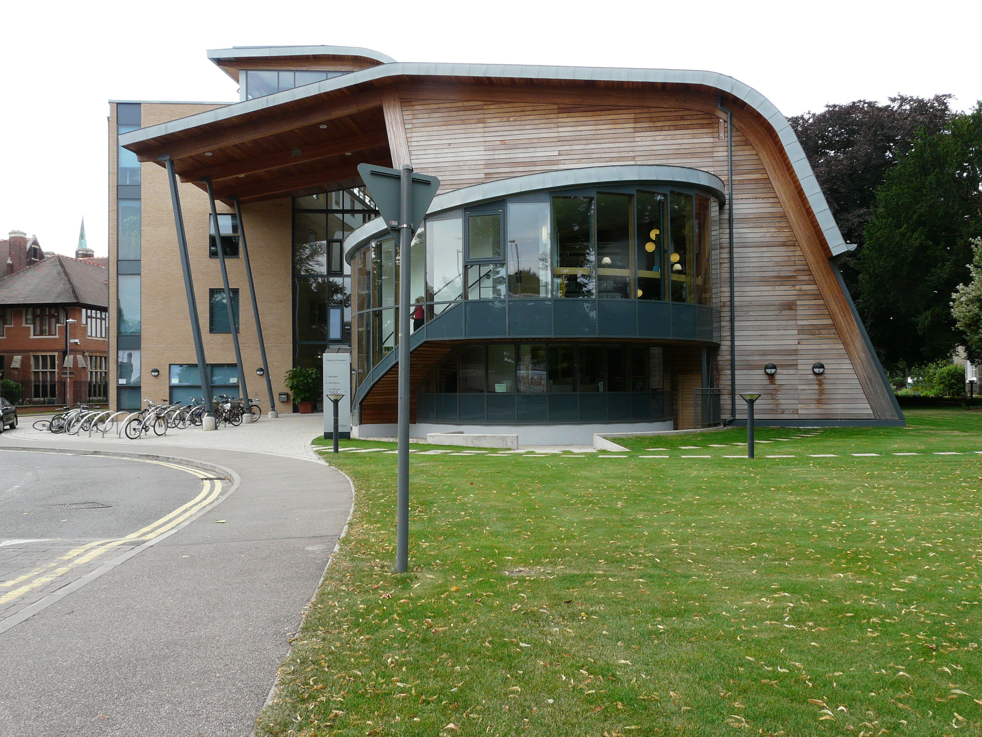 The Faculty of Education at the University of Cambridge.